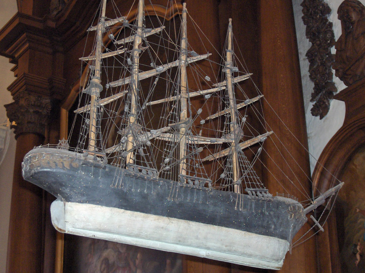 Sailship given as votive by fishermen; in the Kapucijnenkerk; Ostend, Belgium